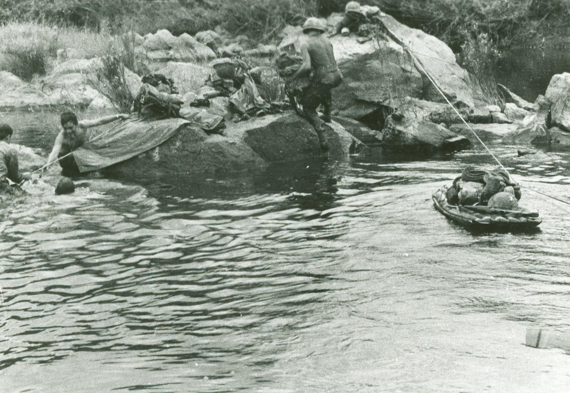 Soldiers from the 4th Battalion, 31st Infantry Regiment rig a pulley system to ferry their packs and gear across a stream.